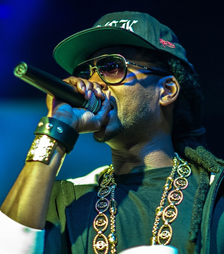 2 Chainz in 2013